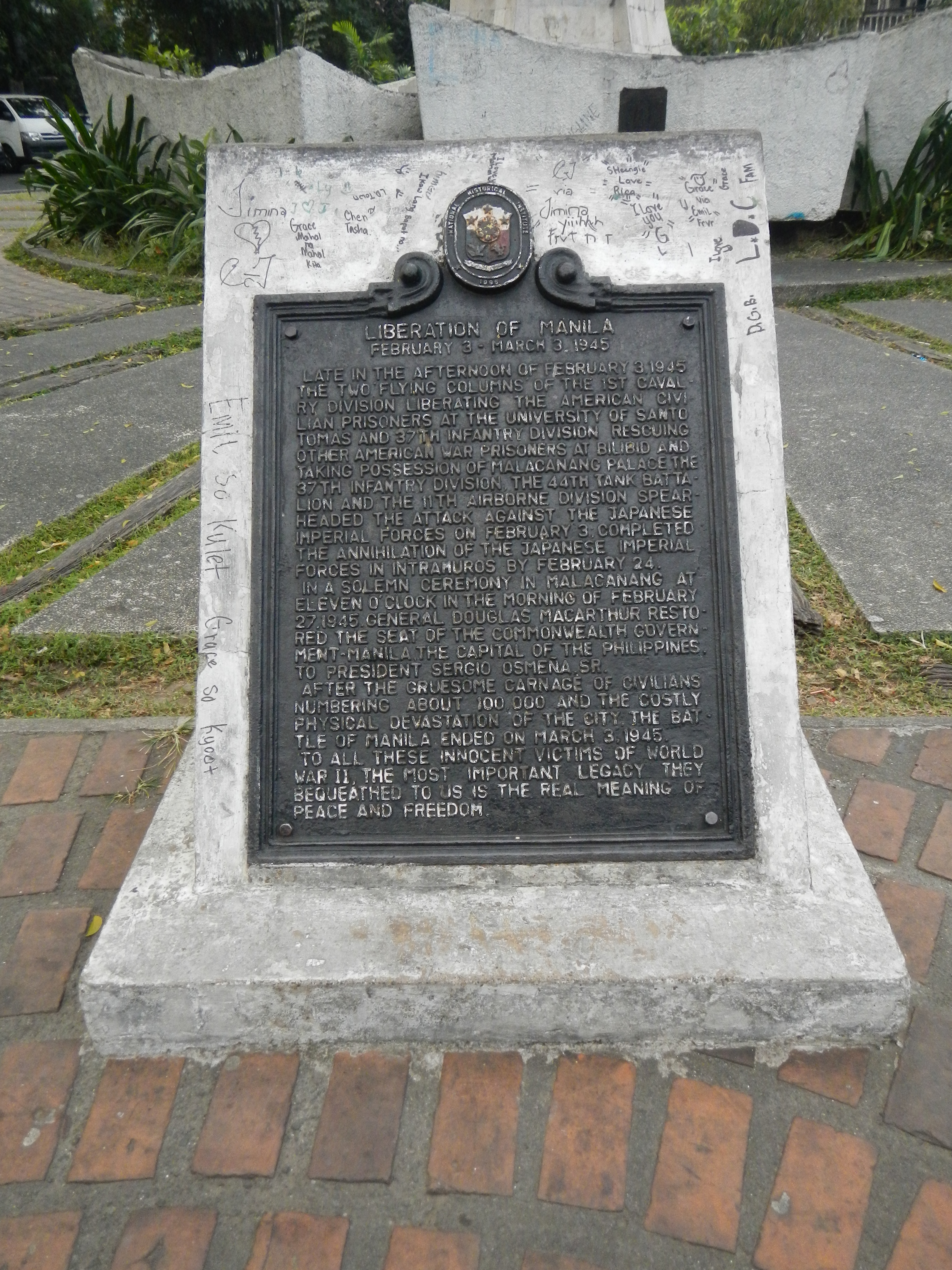 Upload Wizard photos of - a) Ling Nam Wanton Parlor and Noodle Factory [1] was founded in Chinatown in 1950 served traditional Chinese short-order fare, 616 T. Alonzo st. cor. Kipuja st. Coordinates: 14°36'7"N 120°58'43"E b) Battle of Manila (1945) [2] [3] Malacañan Palace (Manila) José P. Laurel Street Eagle Monument c) Samson College of Science and Technology - Manila, 25 Potenciana St. Intramuros, Manila d) Department of Social Welfare and Development (Philippines)[4] NCR, Intramuros, Manila e) Saint Rita College [5] by the Augustinian Recollect Sisters Augustinian nuns [6]Order of Augustinian Recollects [7] #74 San Rafael St., Plaza del Carmen, Quiapo, Manila [8] 1719 Beaterio de Terciarias Agustinas Recoletas Coordinates: 14°35'58"N 120°59'23"E.